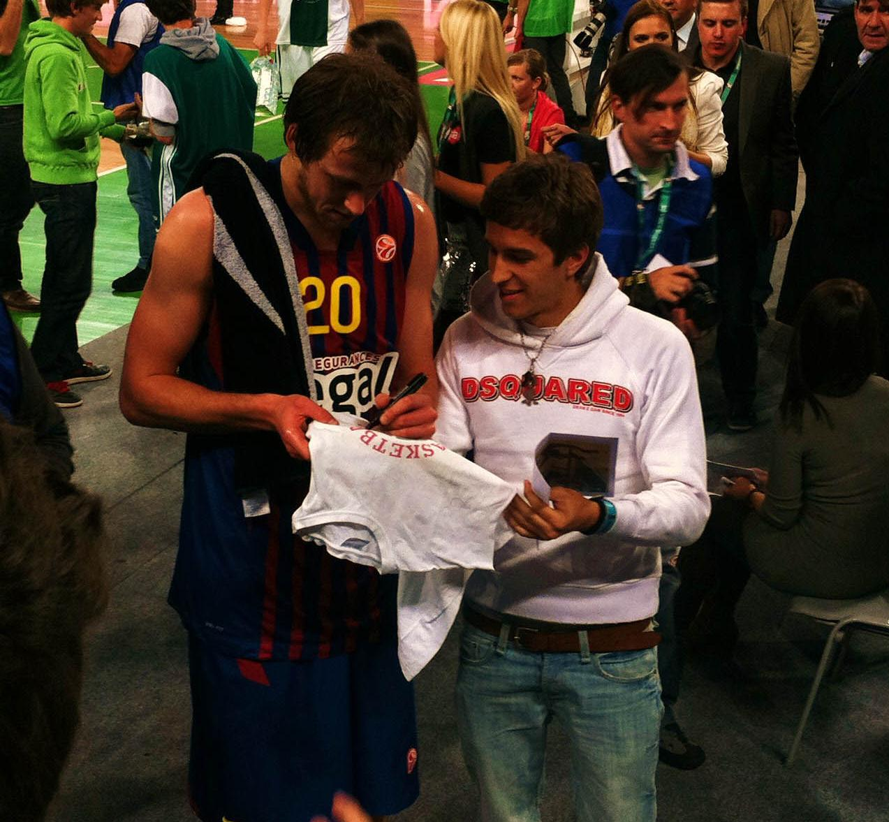 Australian basketballer JoeIngles signing autograph